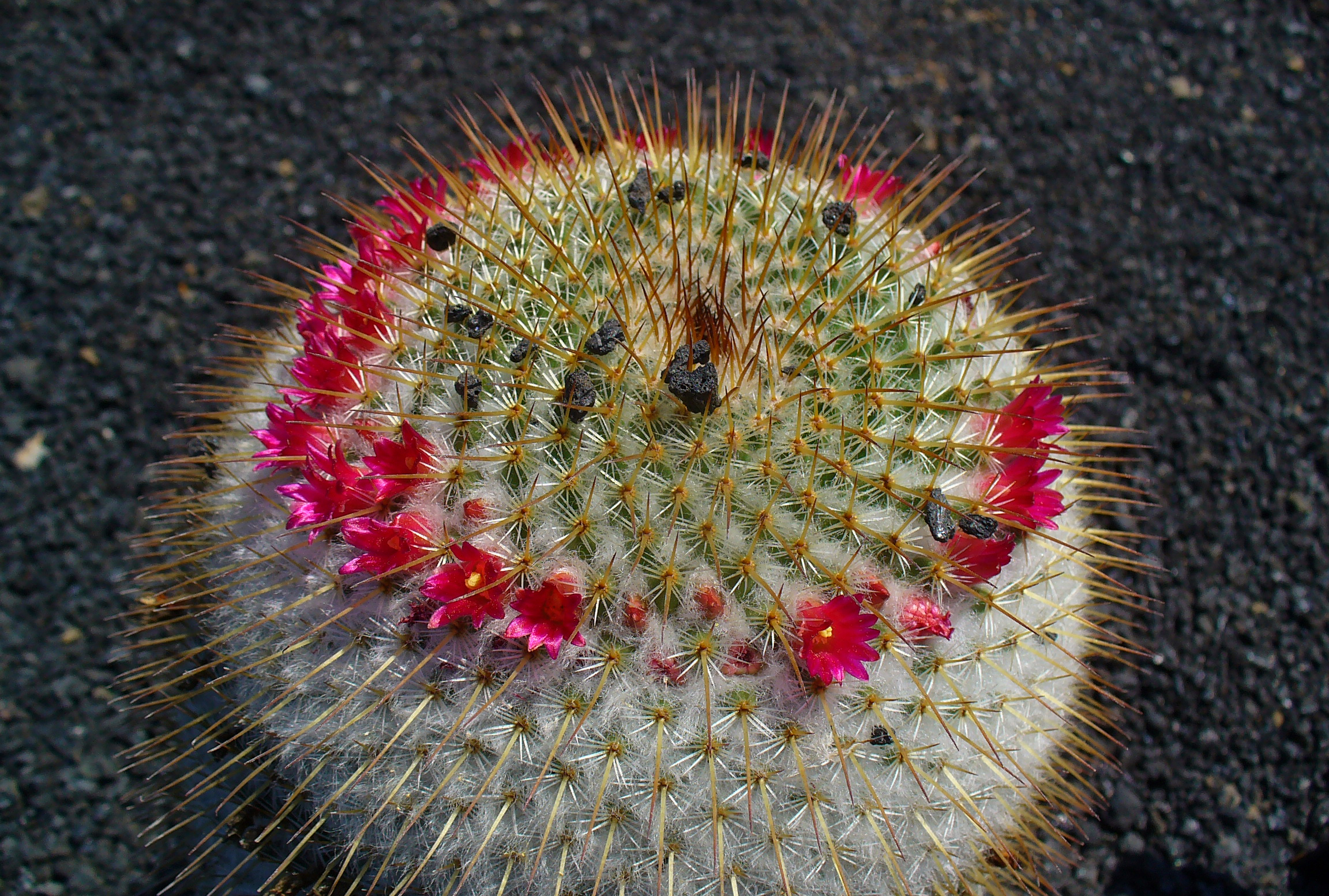 Habitus; Jardín de Cactus, Guatiza, Lanzarote, Canary Islands, Spain.